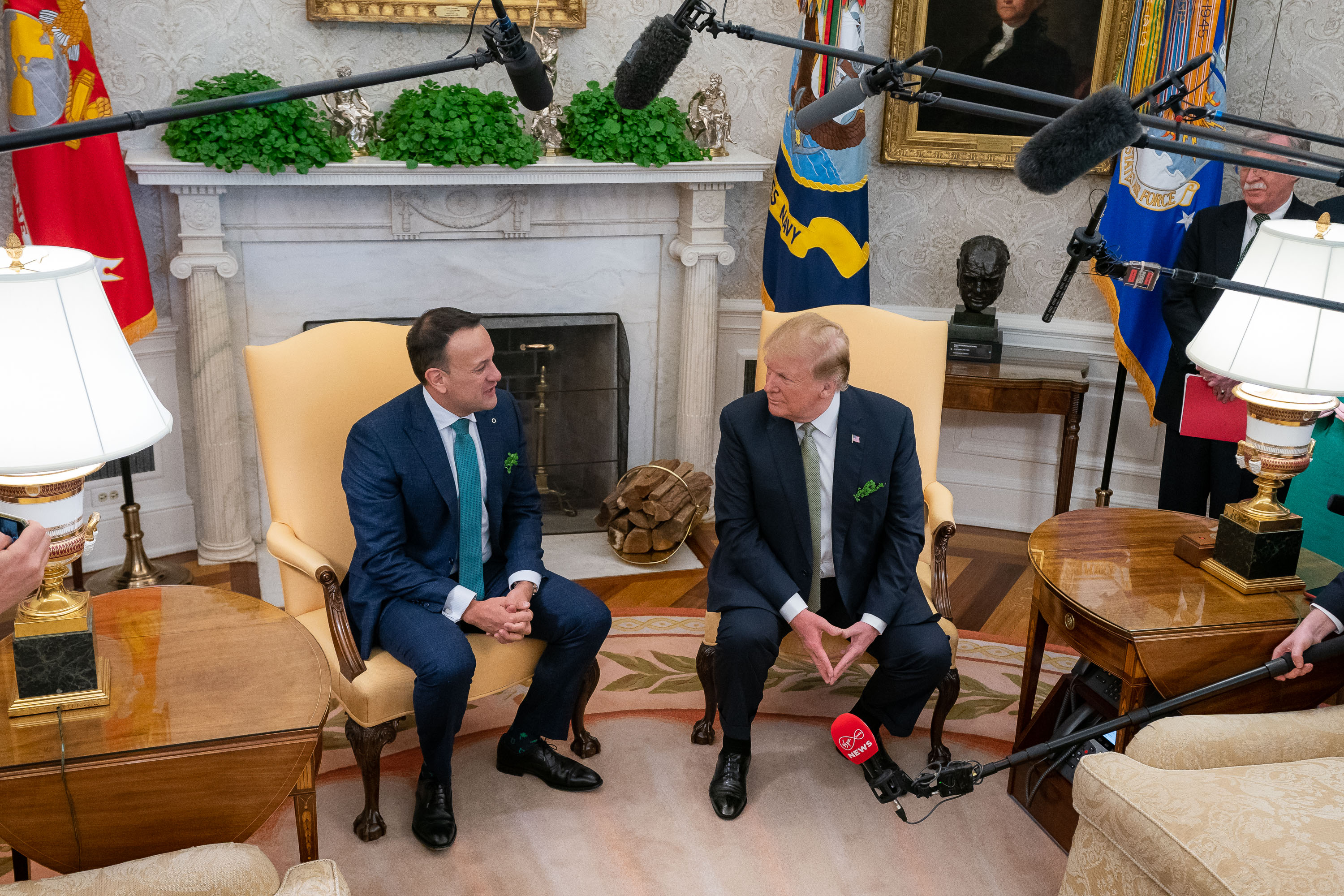 President Donald J. Trump welcomes the Prime Minister of the Republic of Ireland Leo Varadkar Thursday, March 14, 2019, to the White House. (Official White House Photo by Tia Dufour)